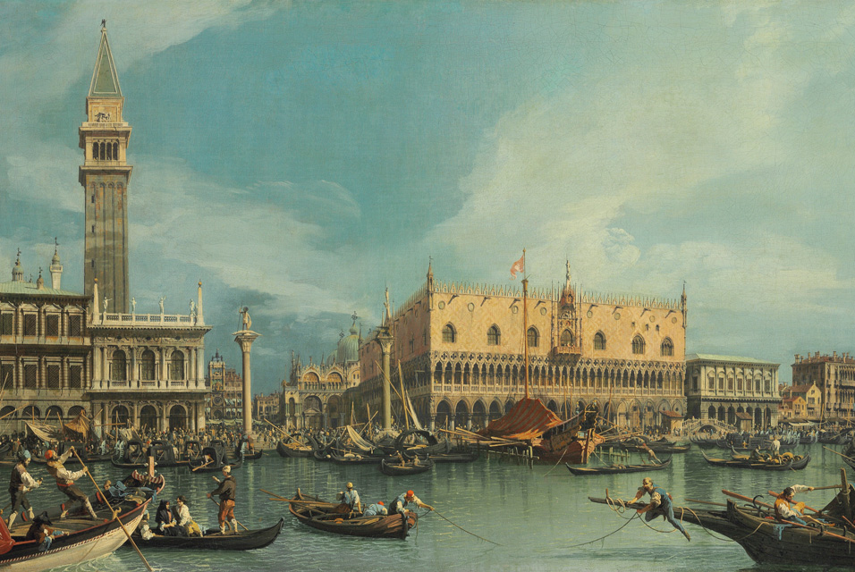 The Molo, Venice, from the Bacino di San Marco by Giovanni Antonio Canaletto. Oil on canvas, 69 x 112.5 cm.